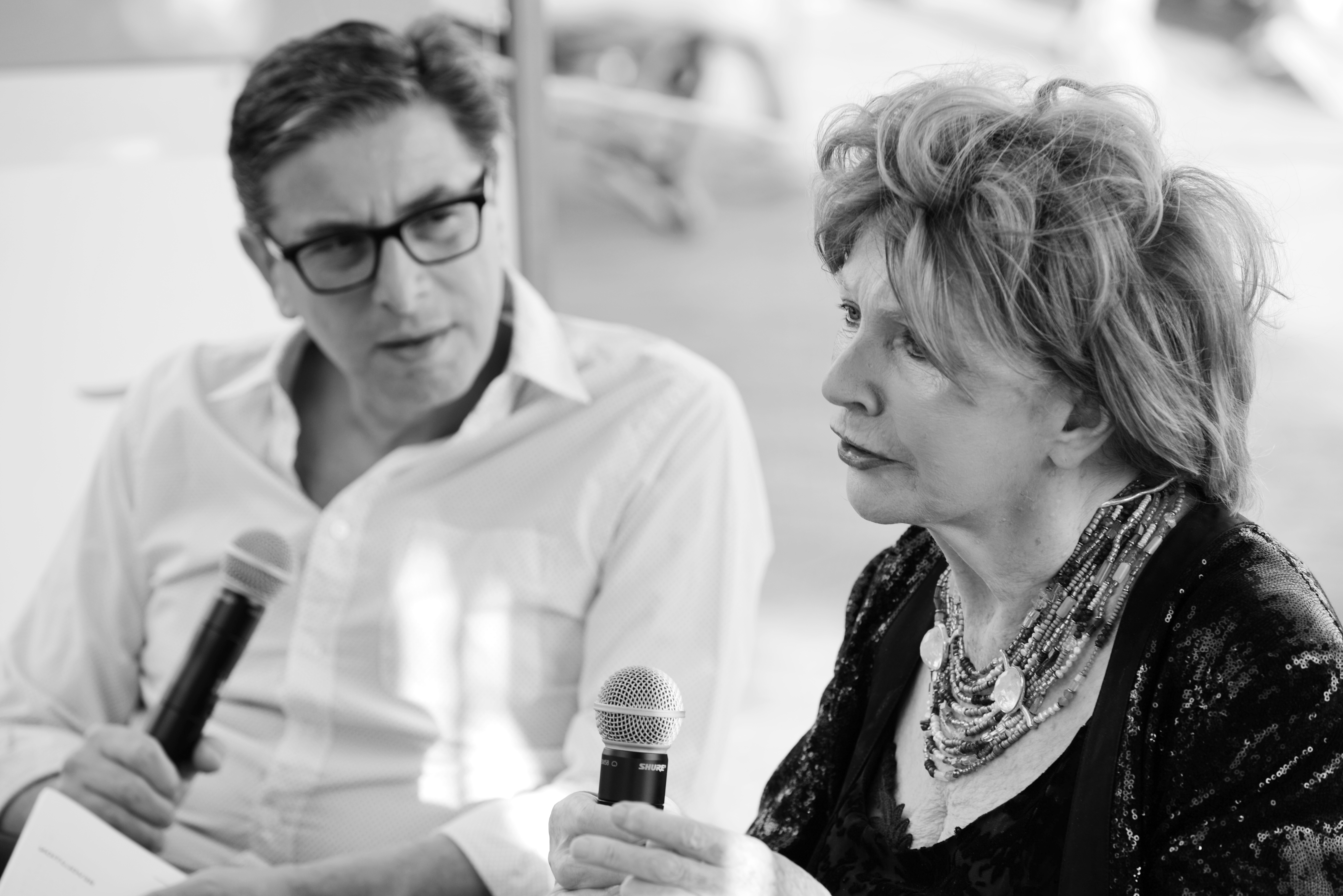 Edna O'Brien & Judith Thurman - Le Conversazion, Capri Day 2 (2015)